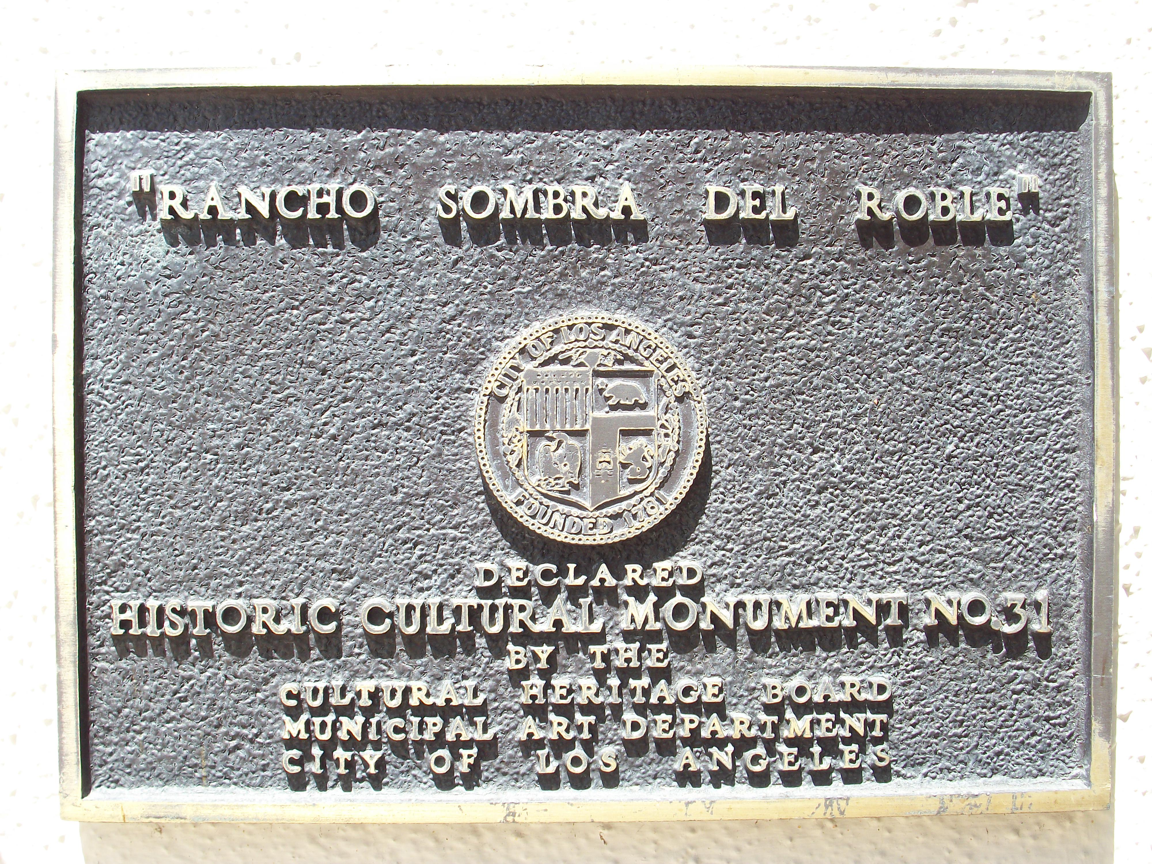 Plaque designating Rancho Sombra del Roble